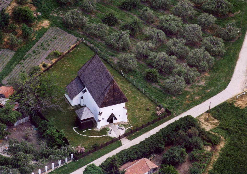 SZamosújlak, Hungary, aerial photography